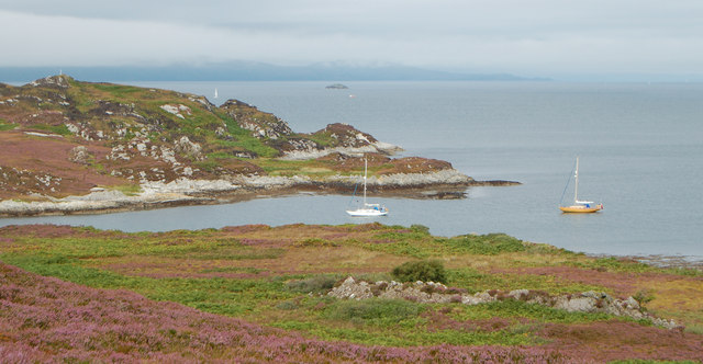 An anchorage, seen Eilean Dubh Mòr, looking towards Eilean Dubh Beag, the Firth of Lorn, Scotland